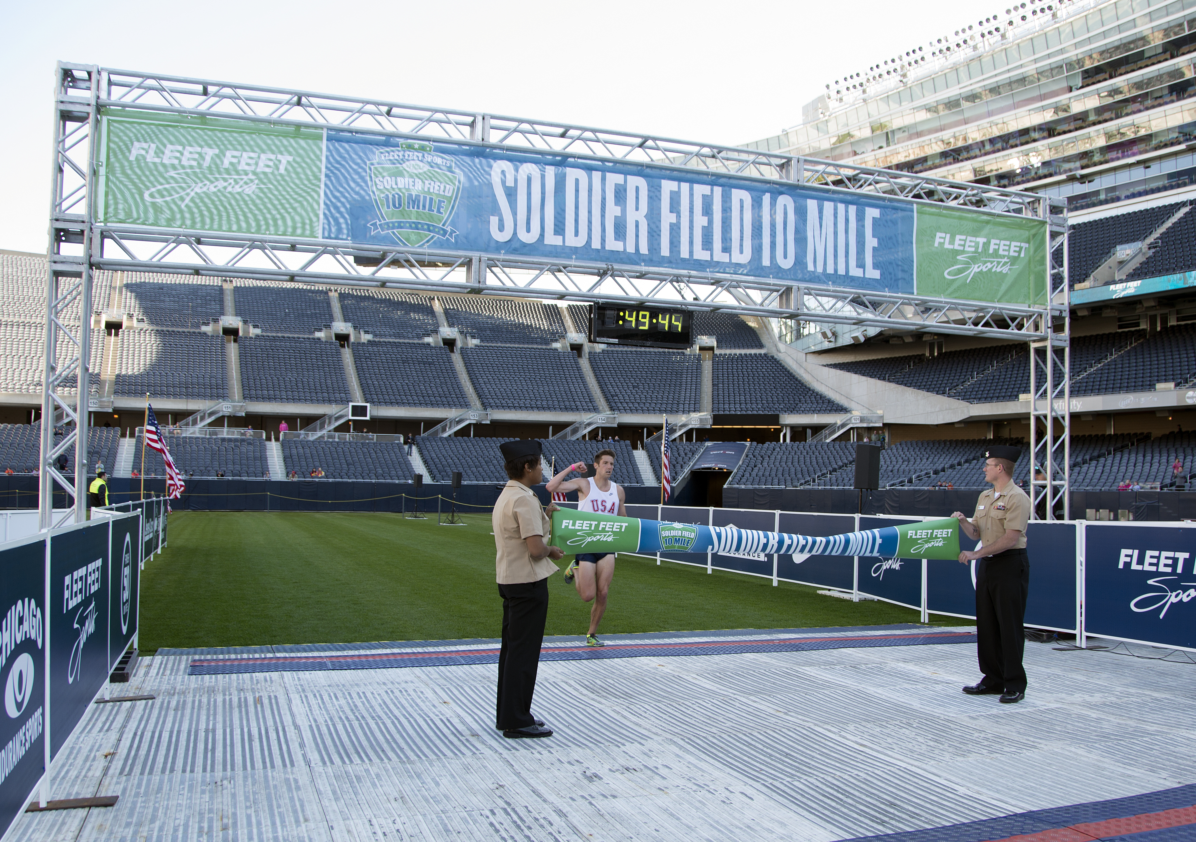 Hospitalman Tarra D. Fant, left, and Damage Controlman 2nd Class (SW) Nathan J. Nixon, right, from the Captain James A. Lovell Federal Health Care Center (FHCC) in North Chicago, Ill., hold the banner as the first runner at the Fleet Feet Sports 2014 Soldier Field 10 Mile crosses the finish line. Lovell FHCC Sailors provided support for the event and presented participants with a finisher medal after they crossed the finish line at the Soldier Field 50-yard line. (U.S. Navy photo by Mass Communication Specialist 2nd Class Darren M. Moore/Released)